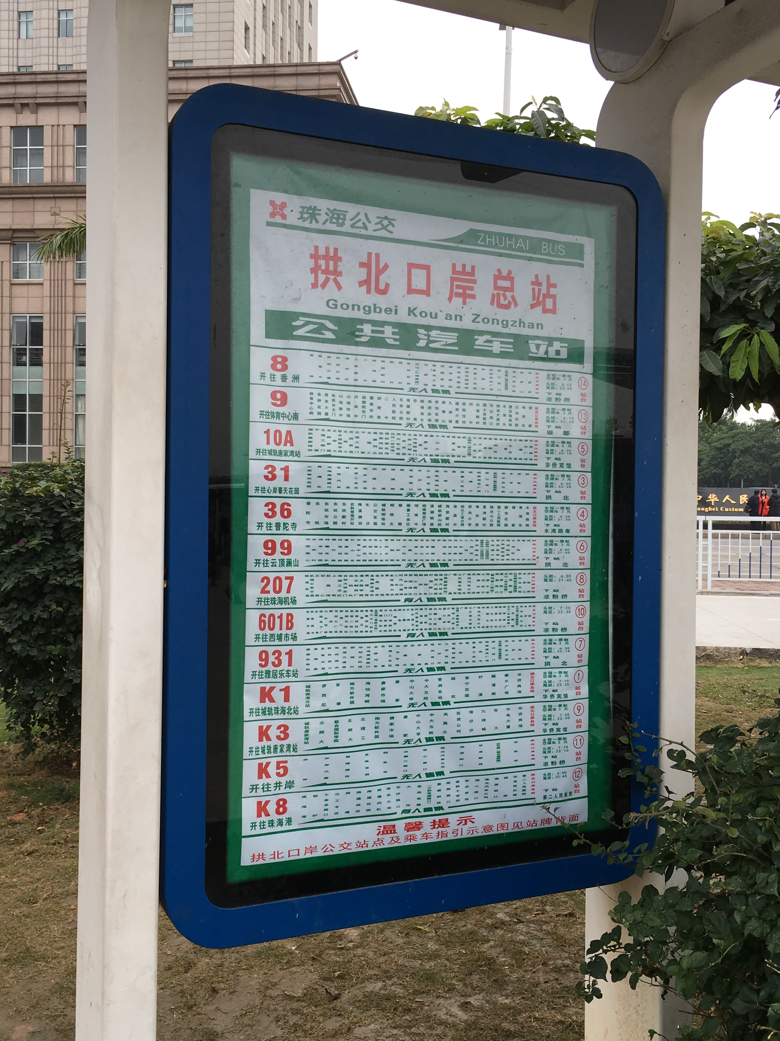 Gongbei Port Bus Terminal Guide